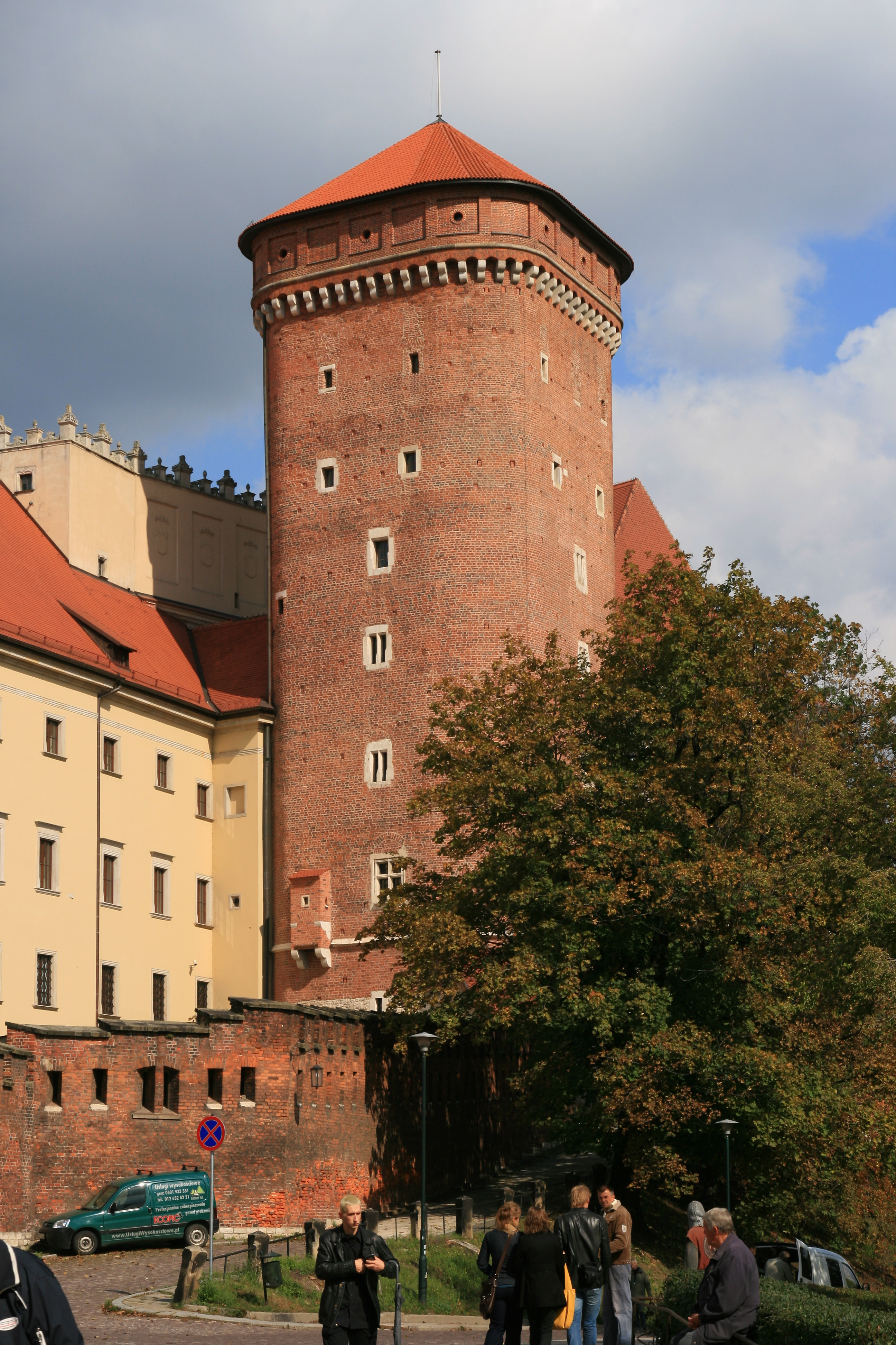 Senator Tower of Wawel in Kraków (Poland).